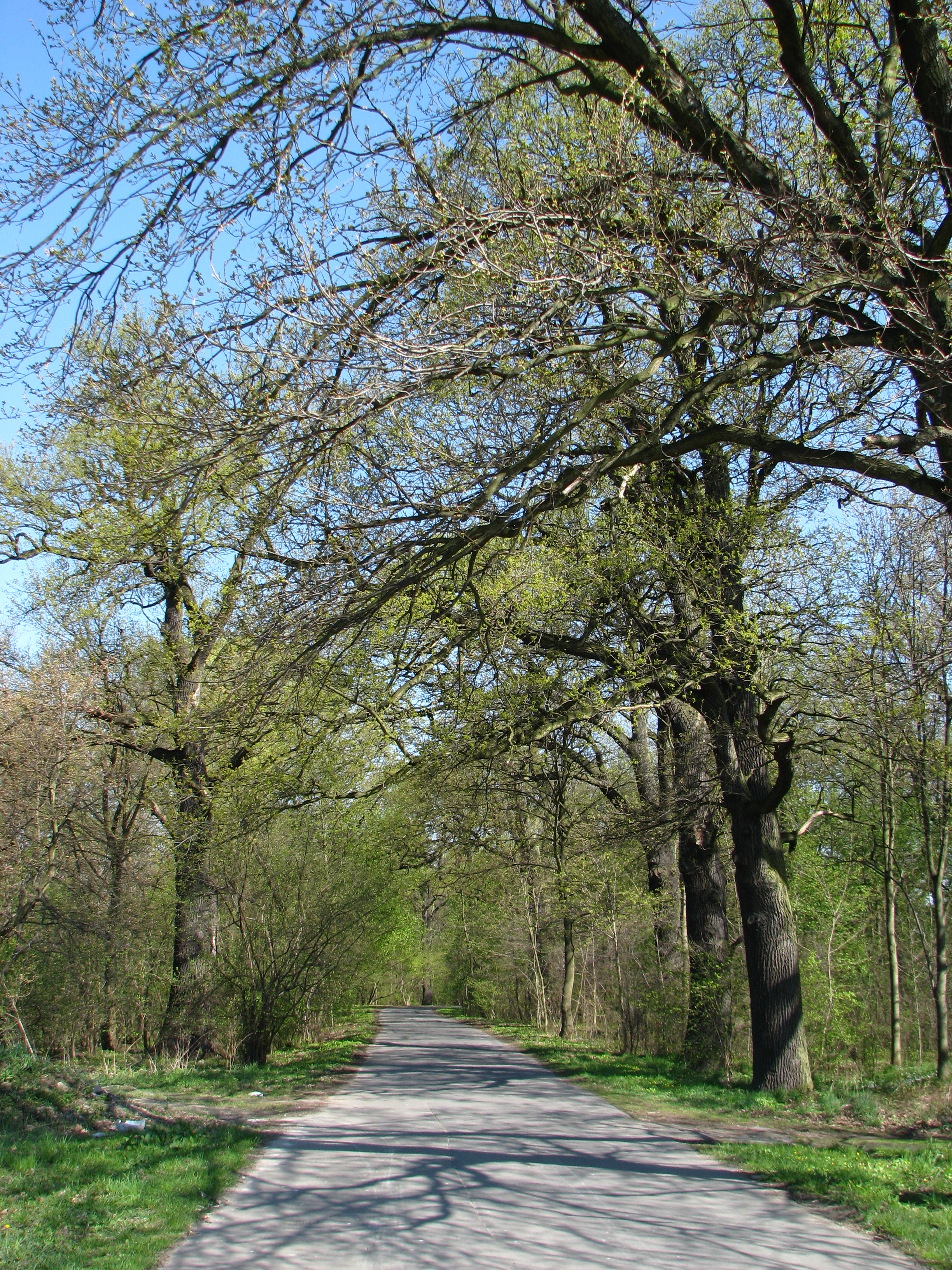 Sołtysowicki Forest on both sides of the Sołtysowicka Street, Wrocław, Poland.